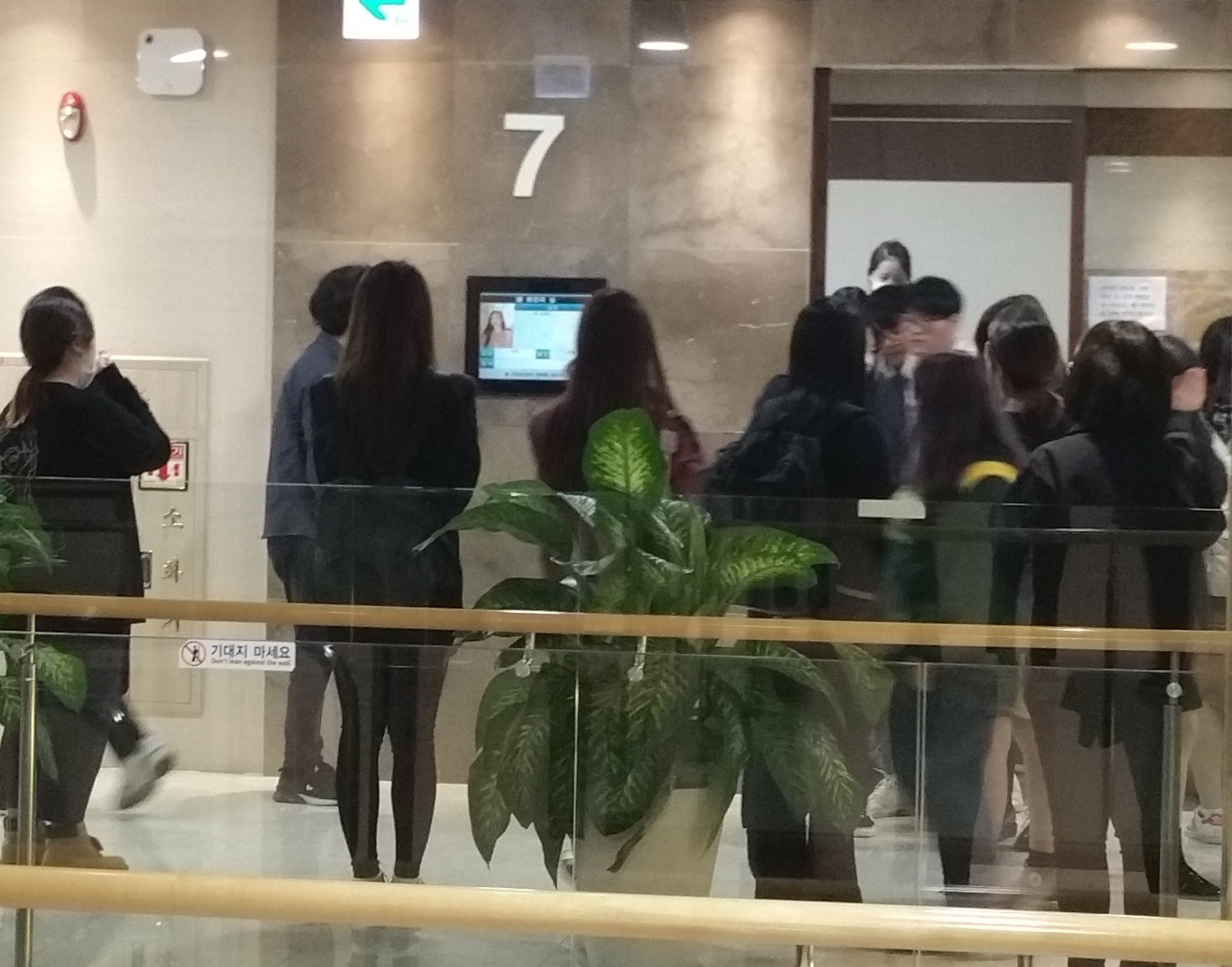 Fan memorial service for Sulli, Yonsei University Severance Hospital, day 2.